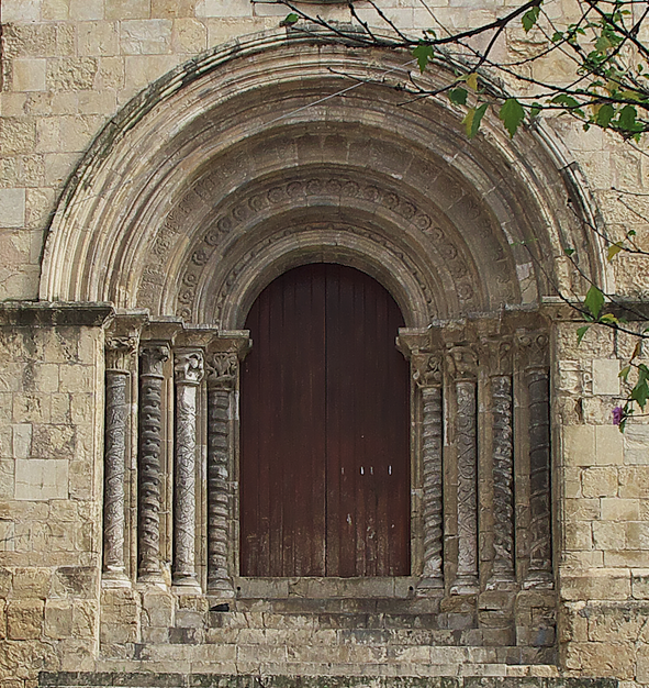 Portal of the church of Santiago in Coimbra